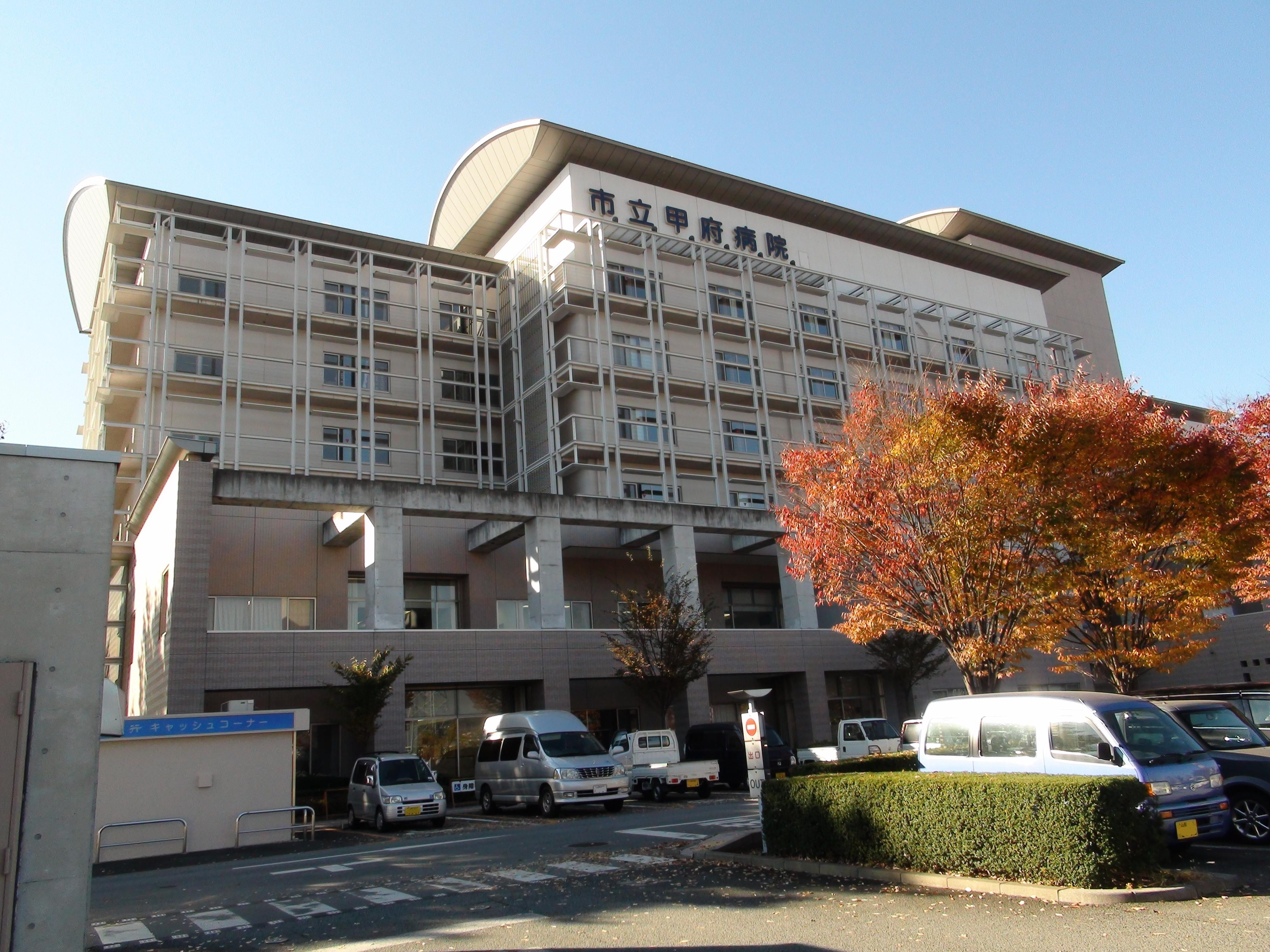 Kofu municipal hospital